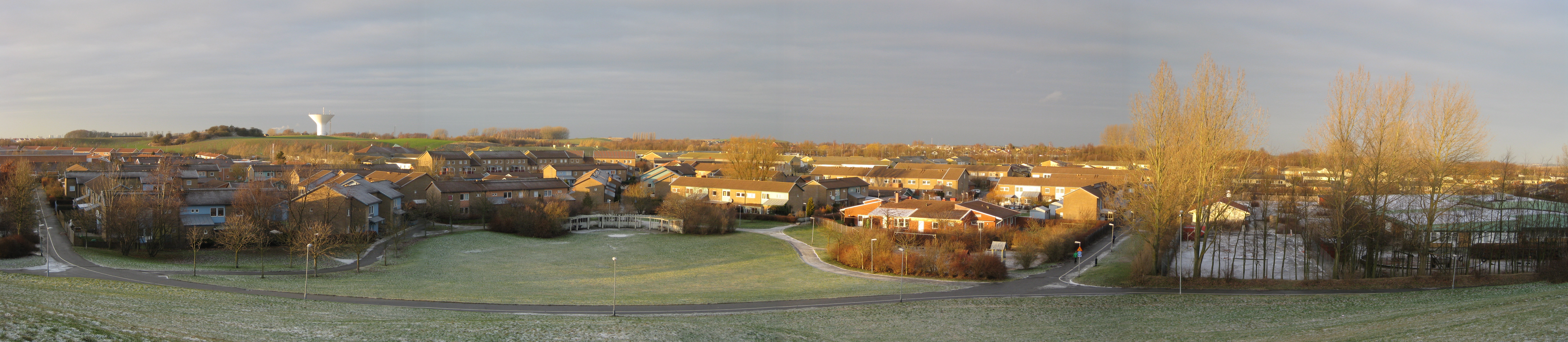 Panorama of Oxievång, Oxie, Malmö, Sweden